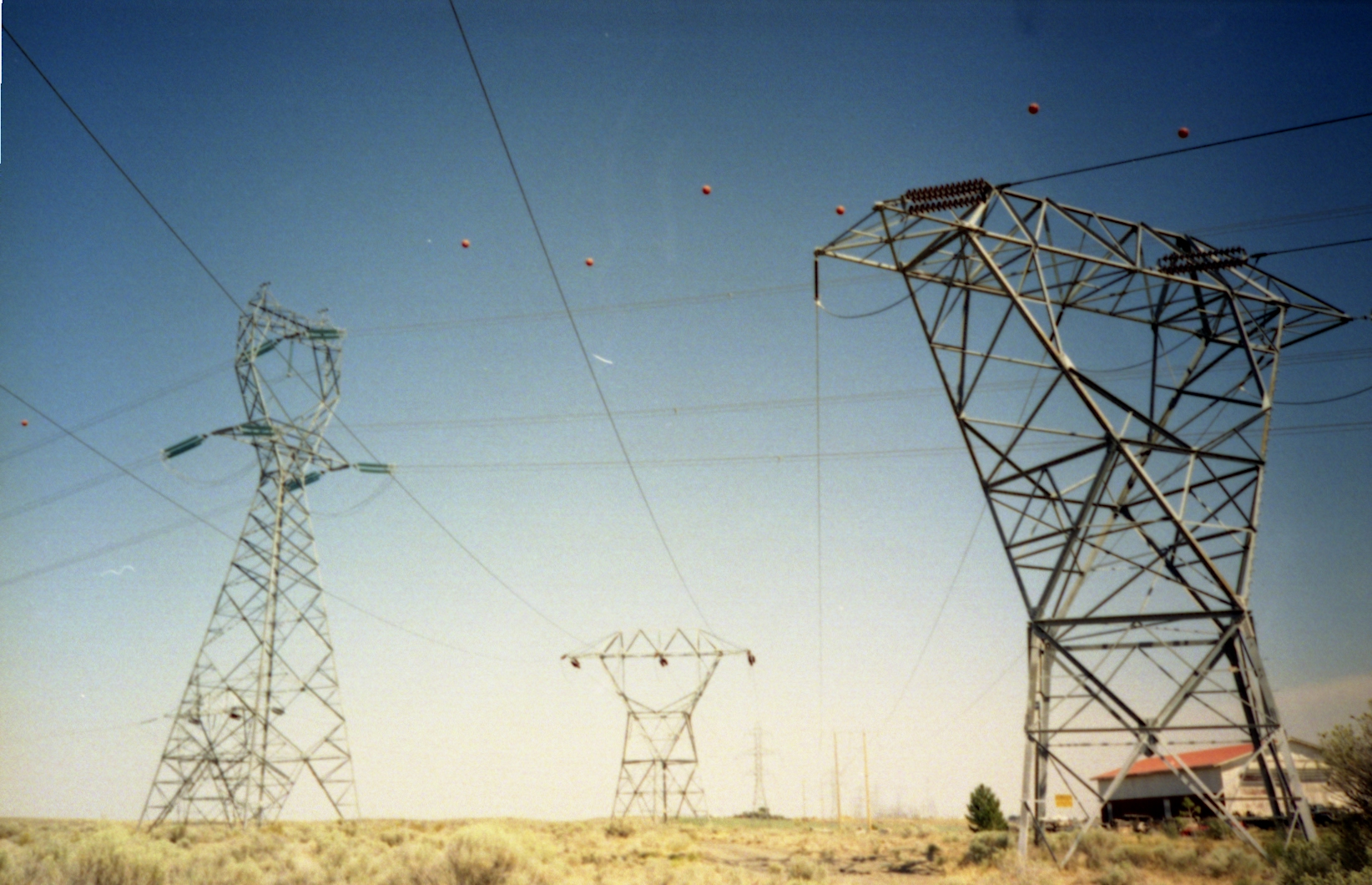 Washington State Desert Pylons